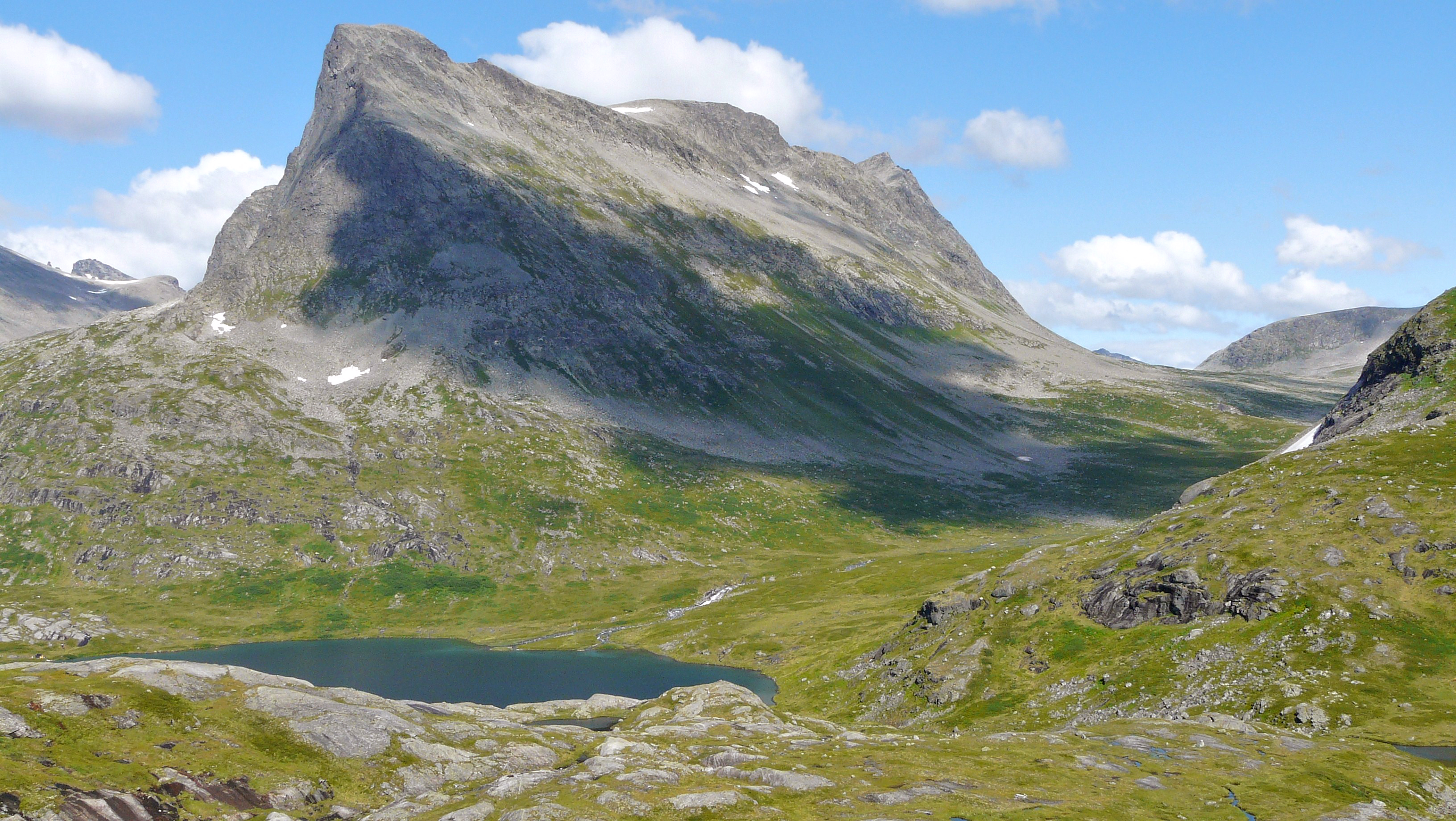 Stigbotthornet as seen from Trollstigheimen by the Riksvei 63 road in 2008 August. The heights of the summits from left to right are: 1,583 m, 1,597 m and 1,622 m. The valley on its right side is Alnesdalen. The lake below is Alnesvatnet.